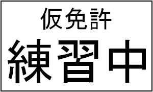 L-plate in Japan. Self-made by author.